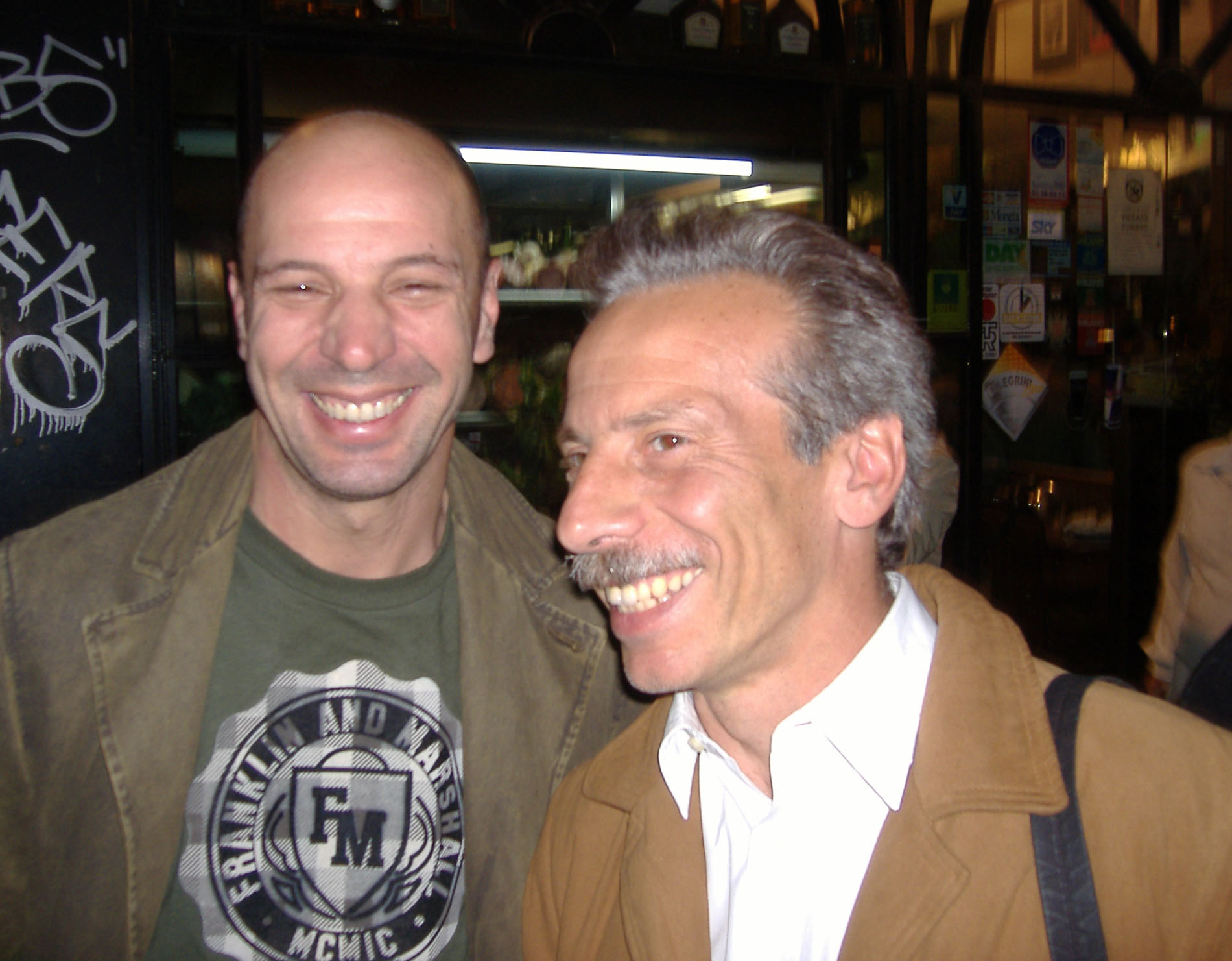 Italian actors Aldo baglio and Giovanni Storti